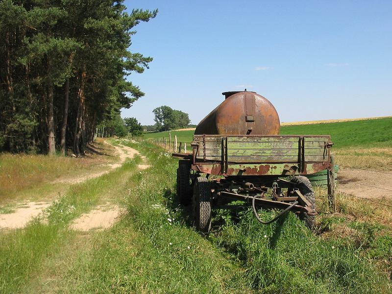 Periglacial arroyo „Steile Kieten“, typical in landscape Fläming (called: „Rummel“), nearby Preußnitz. The village Preußnitz is a part of the village Kuhlowitz, an incorporated part of the town Belzig in Brandenburg, Germany.